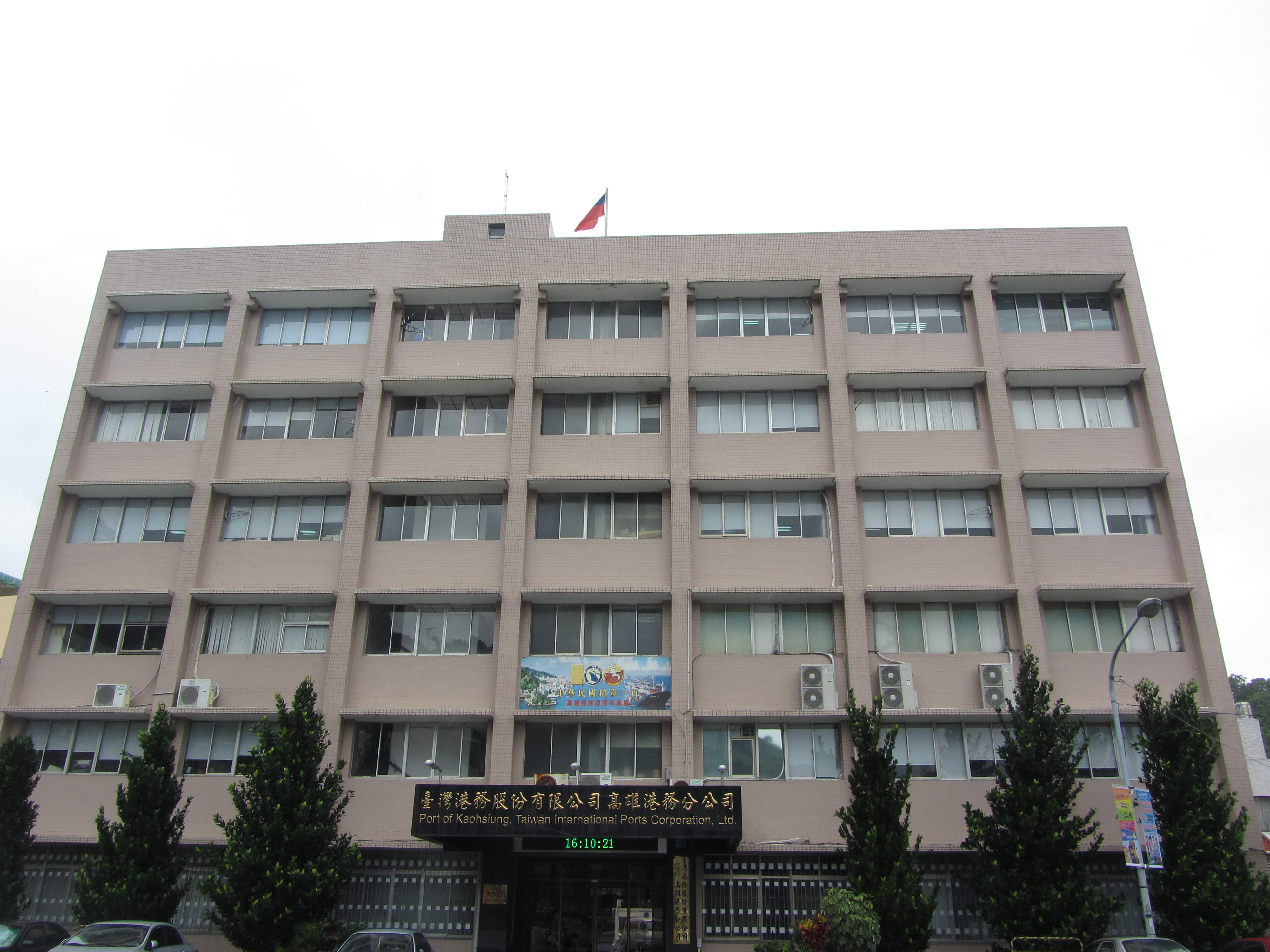 Building of Port of Kaohsiung, Taiwan International Ports Corporation, Ltd